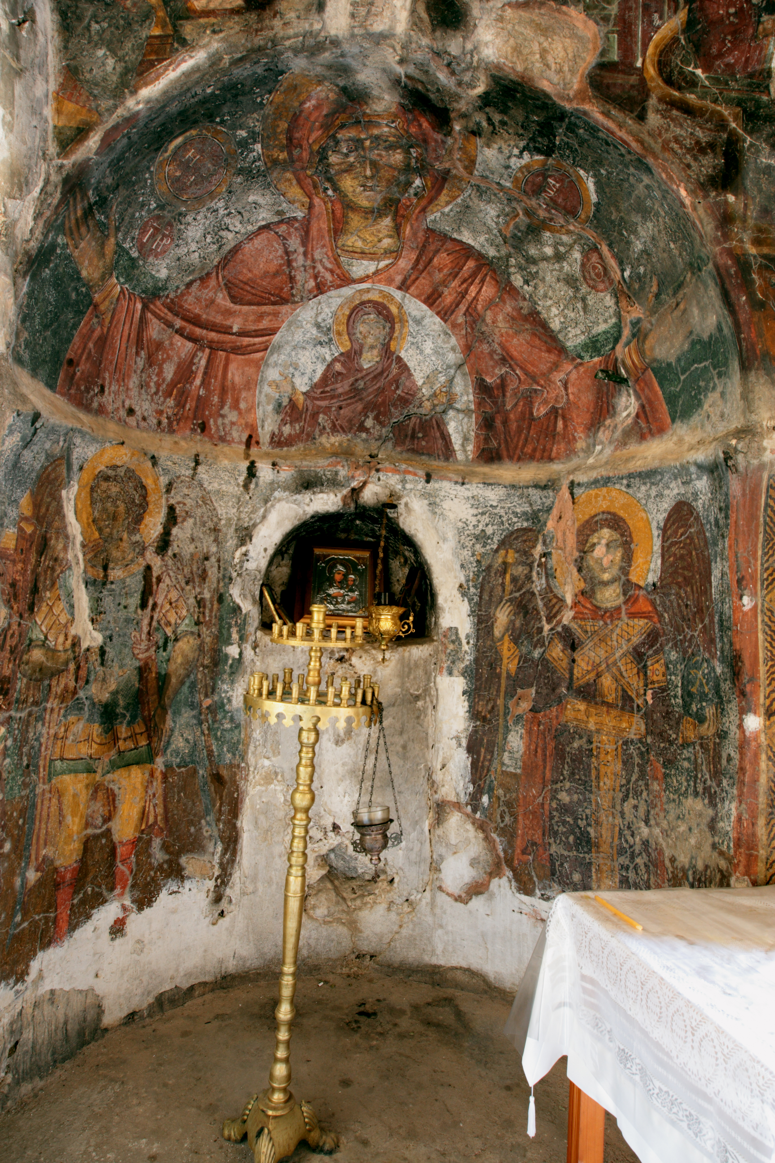 The church of the Panagia Kera, Chromonastiri Village, Crete